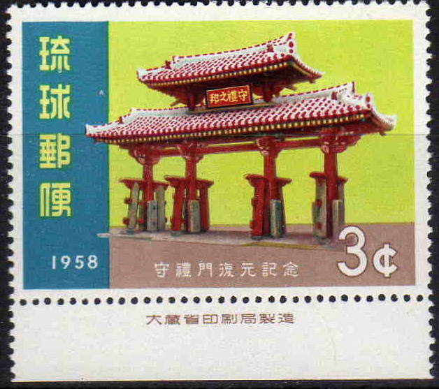 Shureinomon in Naha Okinawa.